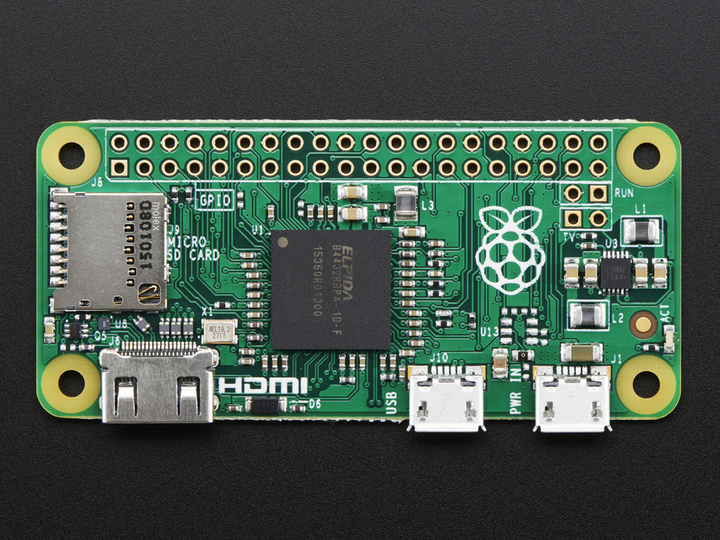 Picture of Raspberry Pi Zero top on